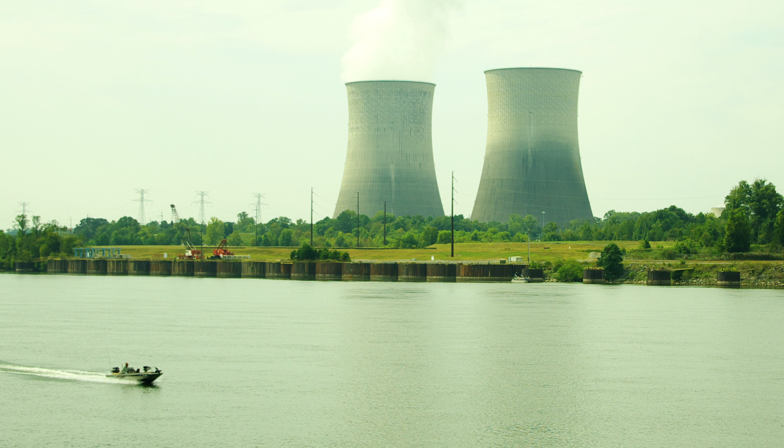 The cooling towers of the Watts Bar Nuclear Generating Station near Spring City, Tennessee, United States. The Tennessee River is in the foreground.